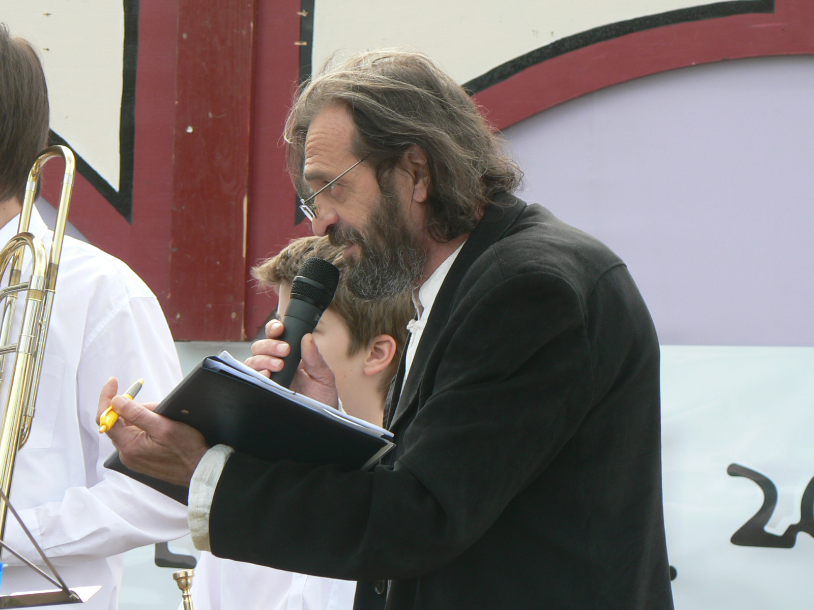 Varga Tamás az Aranykapu 2010. májusi rendezvényén